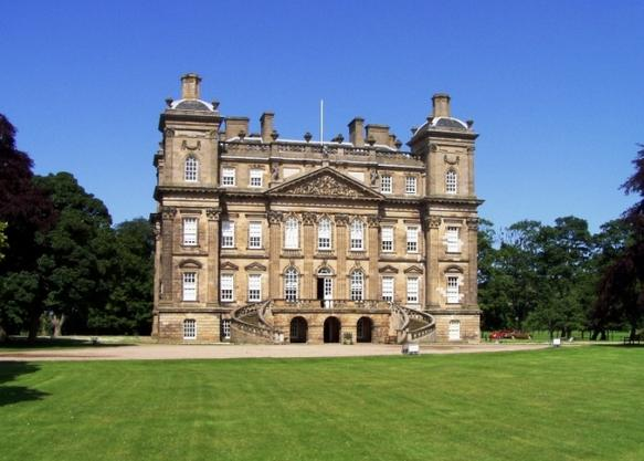 Duff House, nearby Banff, Scotland